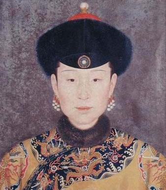 The Official Imperial Portrait of Qing Dynasty's Empresses